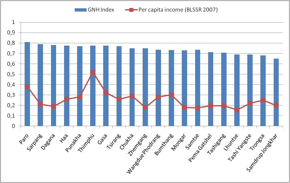 This diagram shows the difference of the GNH-Index and the per capita income in the districts of Bhutan during the survey 2010.